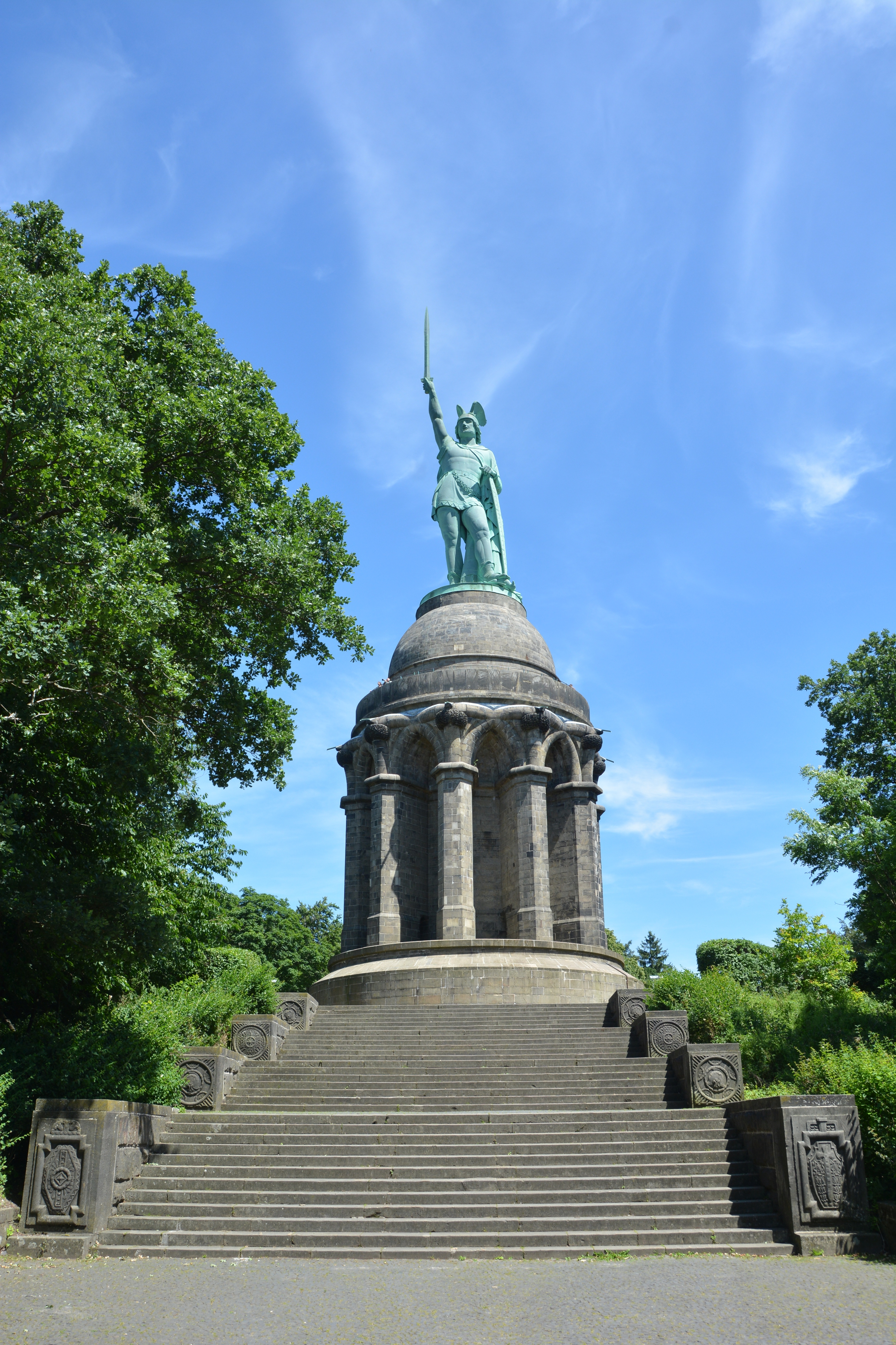 Hermannsdenkmal ("Hermann Monument") in the Teutoburger Wald (Teutoburg Forest), Germany